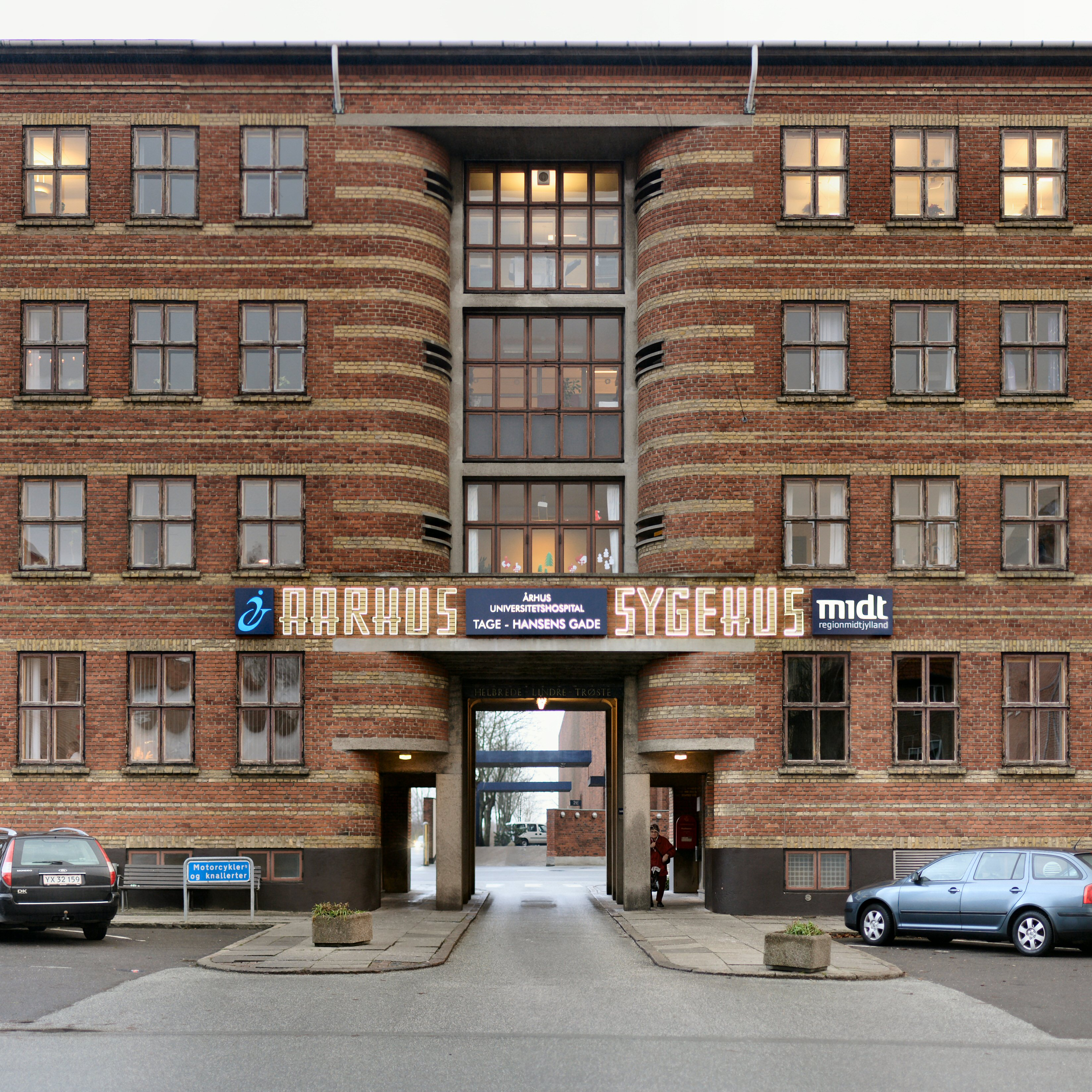 Entrance to Aarhus County's Hospital, inaugurated in 1935